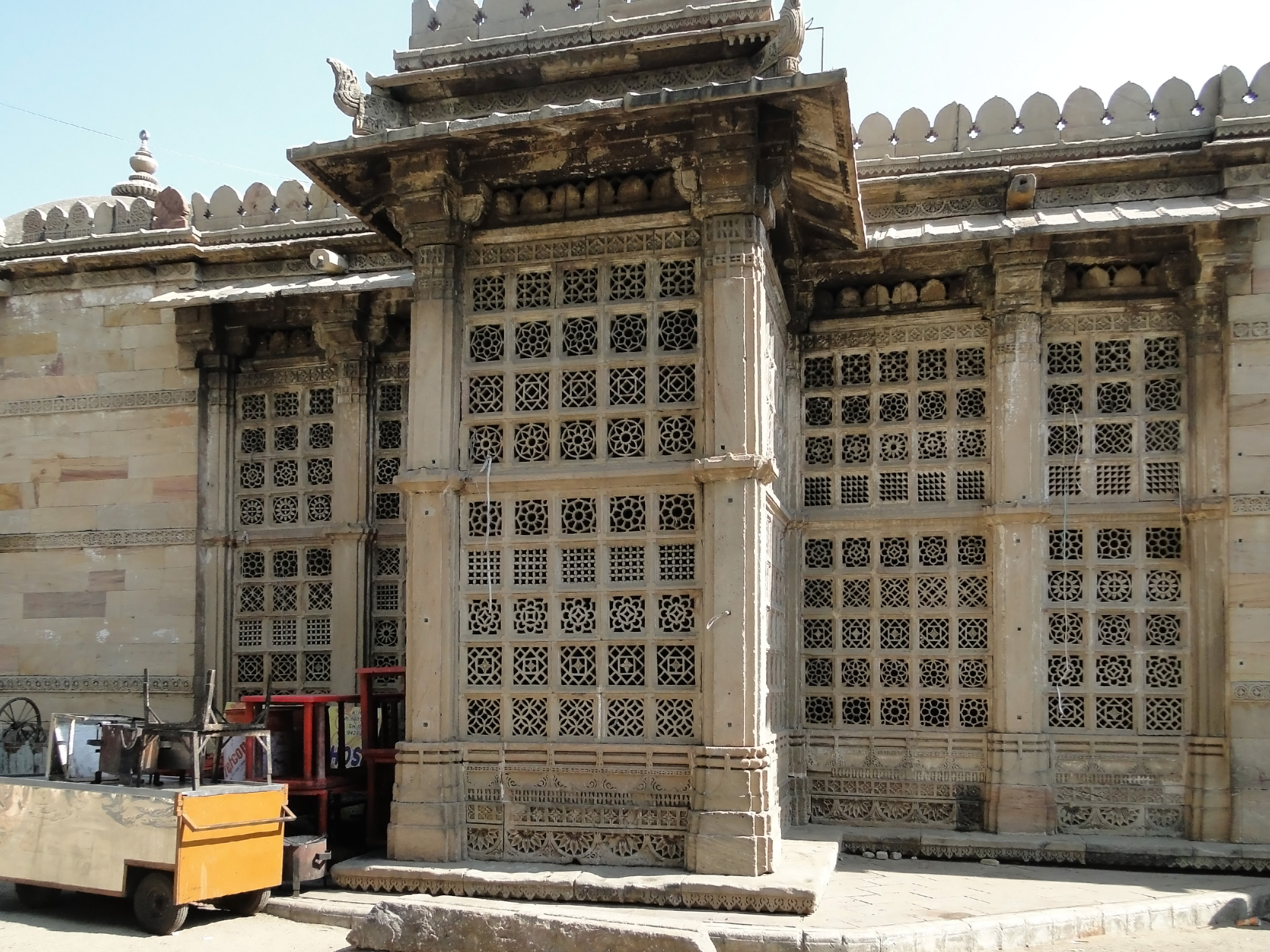 Mausoleum of Ahmed Shah I, Ahmedabad, India